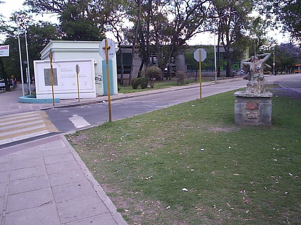 Entrance to the campus of the National University of Cordoba, in Cordoba, Argentina.